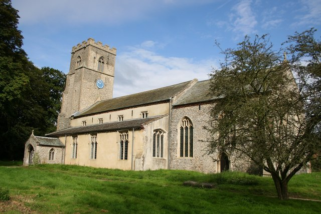 St Mary the Virgin's parish church, Great Snoring, Norfolk, England, seen from the southeast